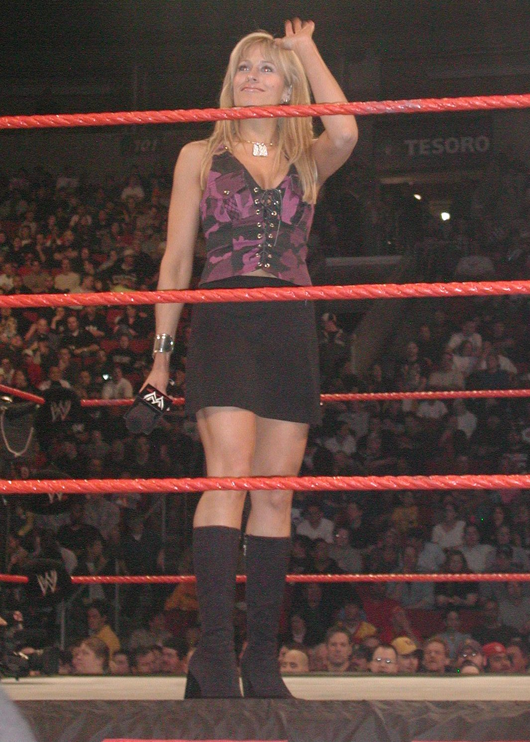 Lillian Garcia as the Monday Night Raw ring announcer. KeyArena, Seattle, WA, March 31 2003.